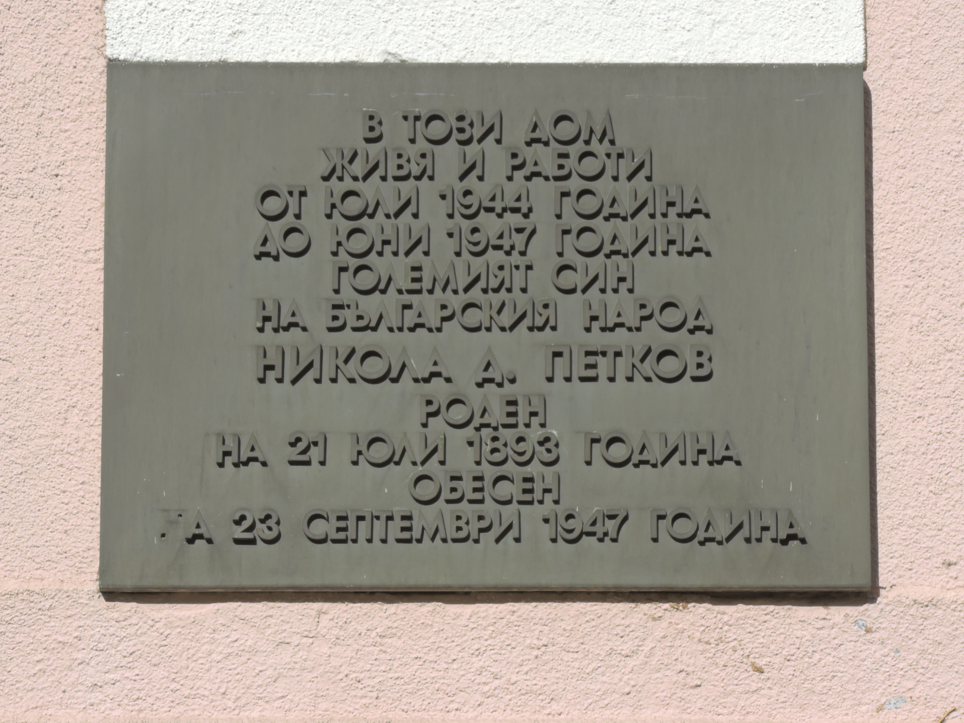 Memorial plaque on the facade of the house on 12 Tsar Ivan Shishman Str., Sofia, where the Bulgarian politician Nikola Petkov lived from July 1944 to June 1947.